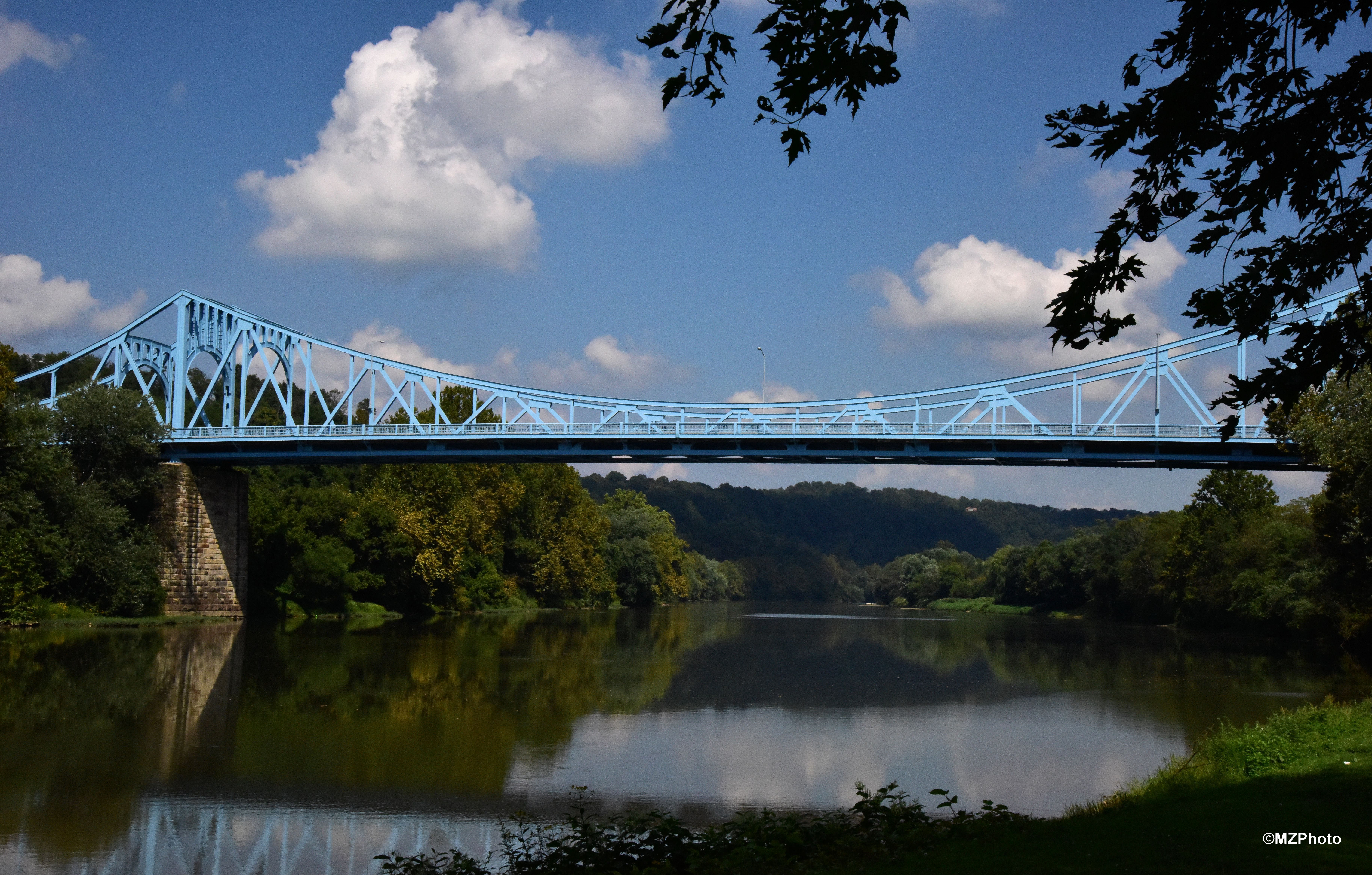 Photo of the Boston Bridge, McKeesport Pa taken by Matthew Zilic Sept 2014